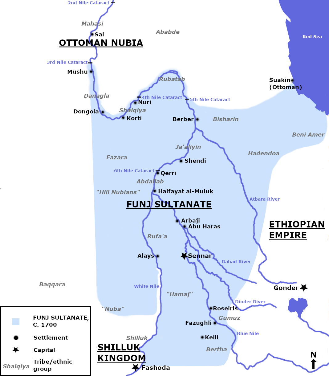 Map of the Funj Sultanate in 1700 AD. Based on Jay Spaulding (1985): "The Heroic Age in Sennar" and modified via Stephanie Beswick (2014): "The Role of Slavery in the Rise and Fall of the Shilluk Kingdom", who claims that the Funj only controlled the northern half of the Shilluk kingdom, not the entirety of it. I admit, this map is no beauty, but in the moment I have no time to enhance it further.